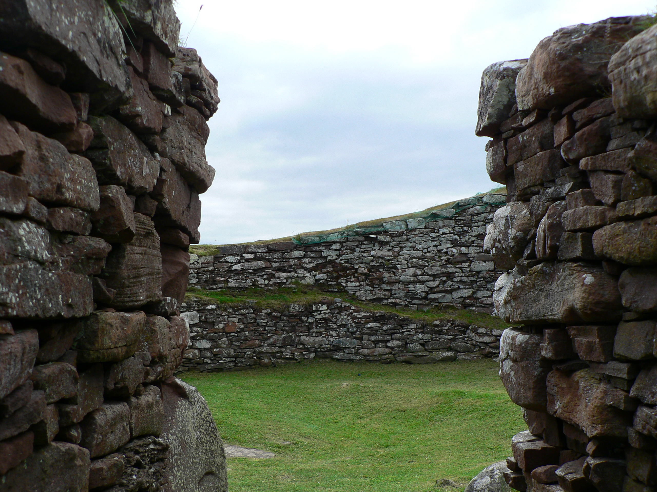 Carn Liath Broch, Scotland